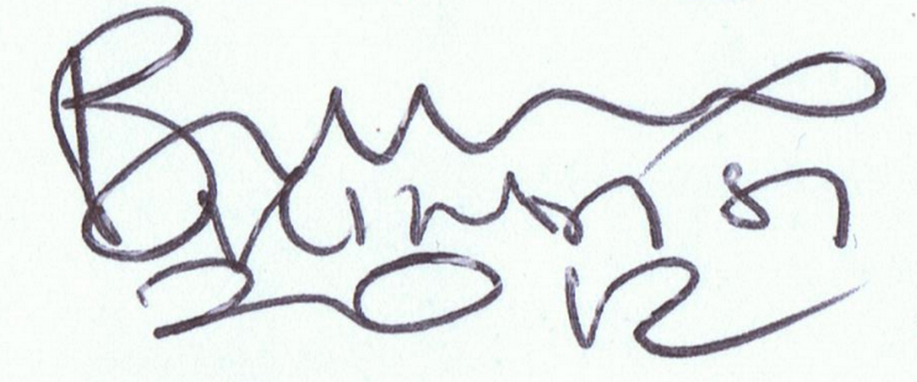 Bruno Brindisi signature